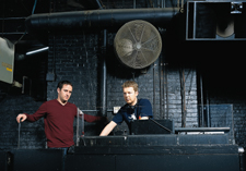 Sasha & John Digweed in the old DJ booth.